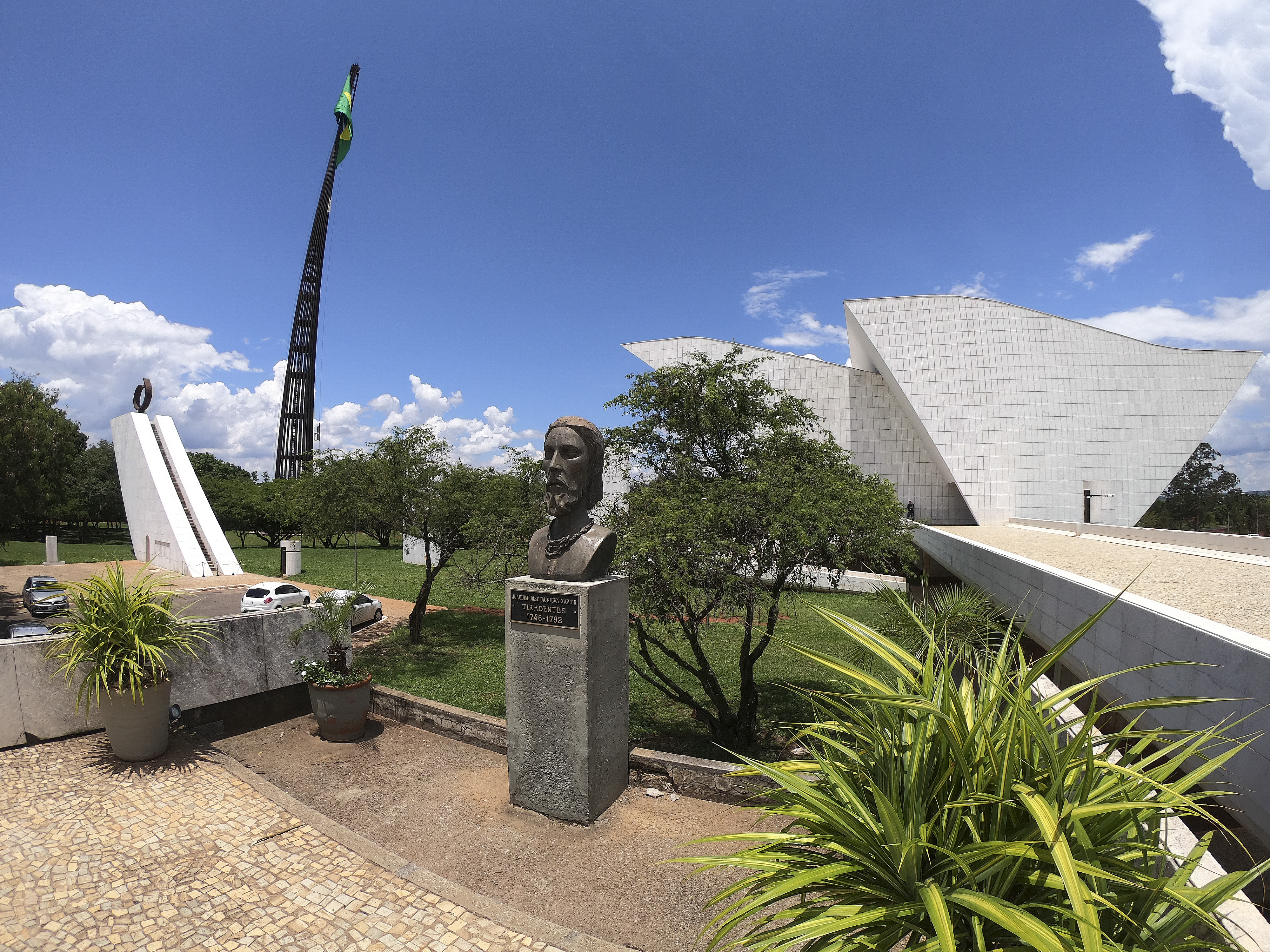 O Panteão da Pátria e da Liberdade Tancredo Neves é um memorial em formato de pomba que homenageia heróis nacionais, como o ex-Primeiro-Ministro Tancredo Neves. O local foi projetado pelo famoso arquiteto brasileiro Oscar Niemeyer e fica na Praça dos Três Poderes, junto de outros marcos importantes. A chama do Panteão da Pátria, no centro de Brasília, voltou a ser acesa na última segunda-feira (22) – após um reforma que durou sete meses. A estrutura estava apagada desde agosto de 2016 devido a um vazamento de gás. Foto: Roque de Sá/Agência Senado